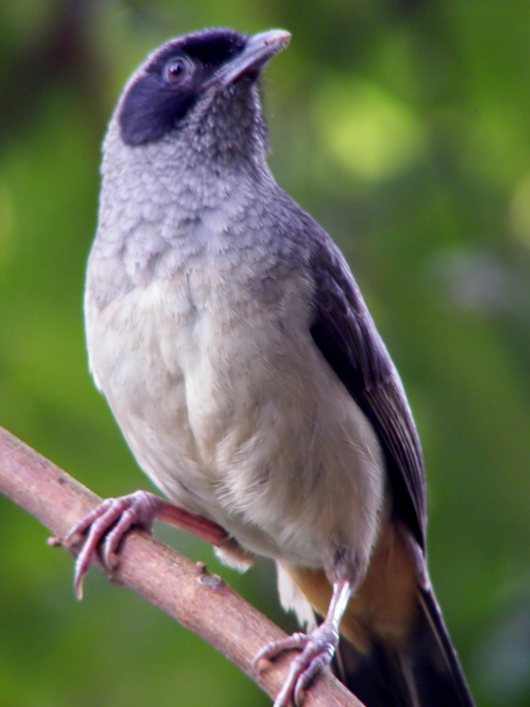 Saw at the park area.